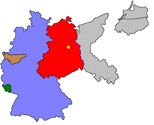 Self made using the following public domain map as template Purpose is to depict the German political situation in 1949, with West Germany, East Germany, the Saar protectorate, the Ruhr area under economic control of the International Authority for the Ruhr, and the eastern quarter of Germany under de-facto annexation by the Allies of WW-II although not legally recognized as so by West Germany at this time.